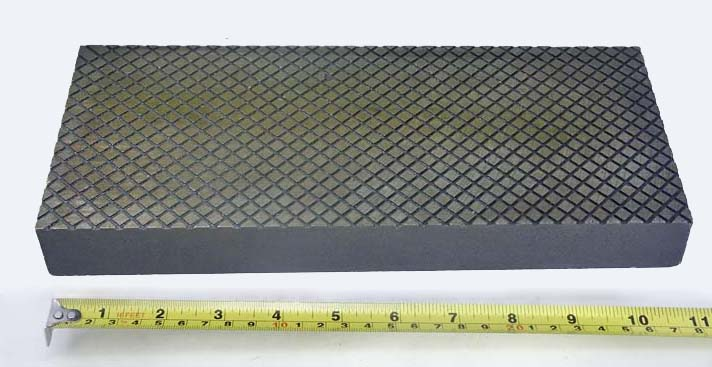 Small lapping plate used for manual lapping